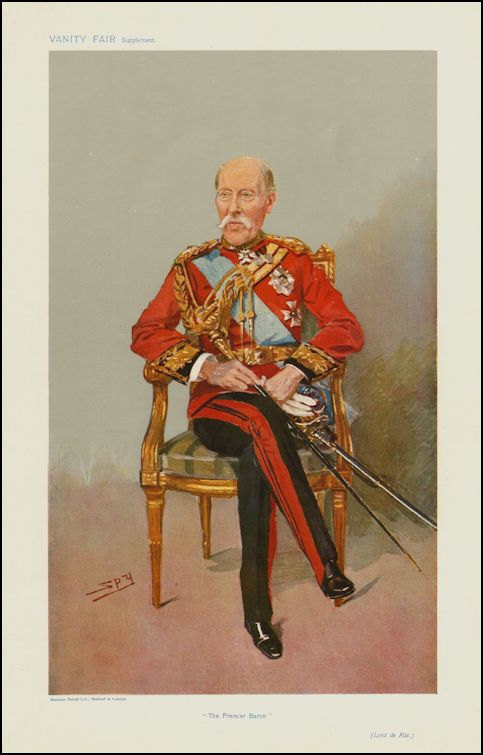 Caricature of Dudley FitzGerald-de Ros, 24th Baron de Ros (1827-1907). Caption read "The premier Baron".